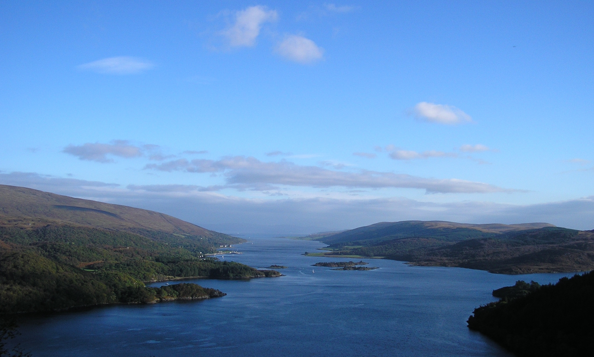 Looking down the Kyles of Bute, Argyll & Bute, Scotland